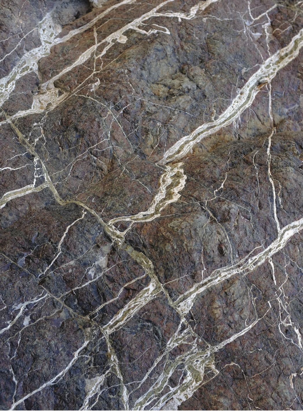 The source states, "the world's largest and best-exposed subaerial block of oceanic crust and upper mantle. The field of view is about 15 centimeters across."